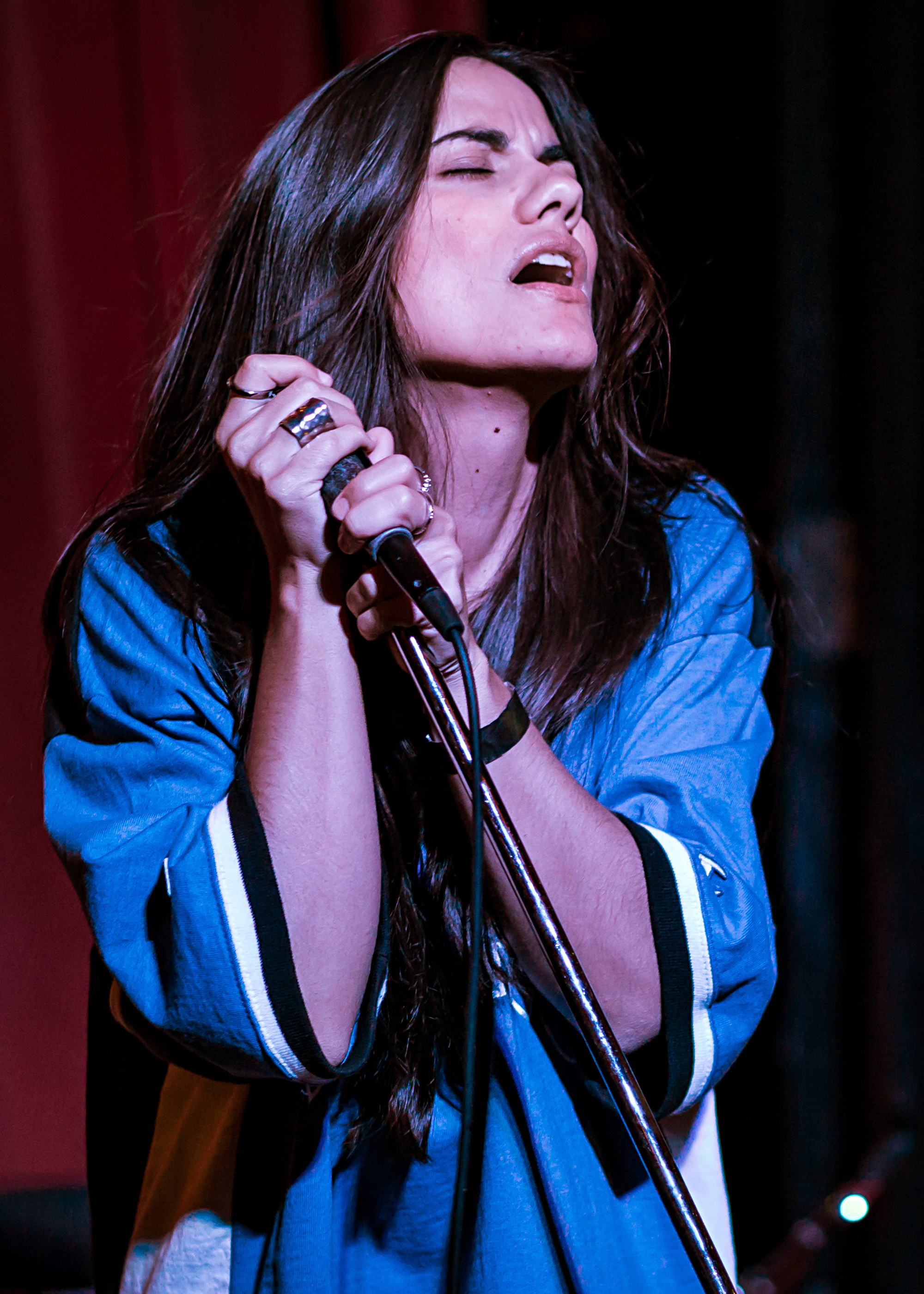 Sofi De La Torre performing live at School Night at Bardot Hollywood in Los Angeles California on Monday November 21, 2016.